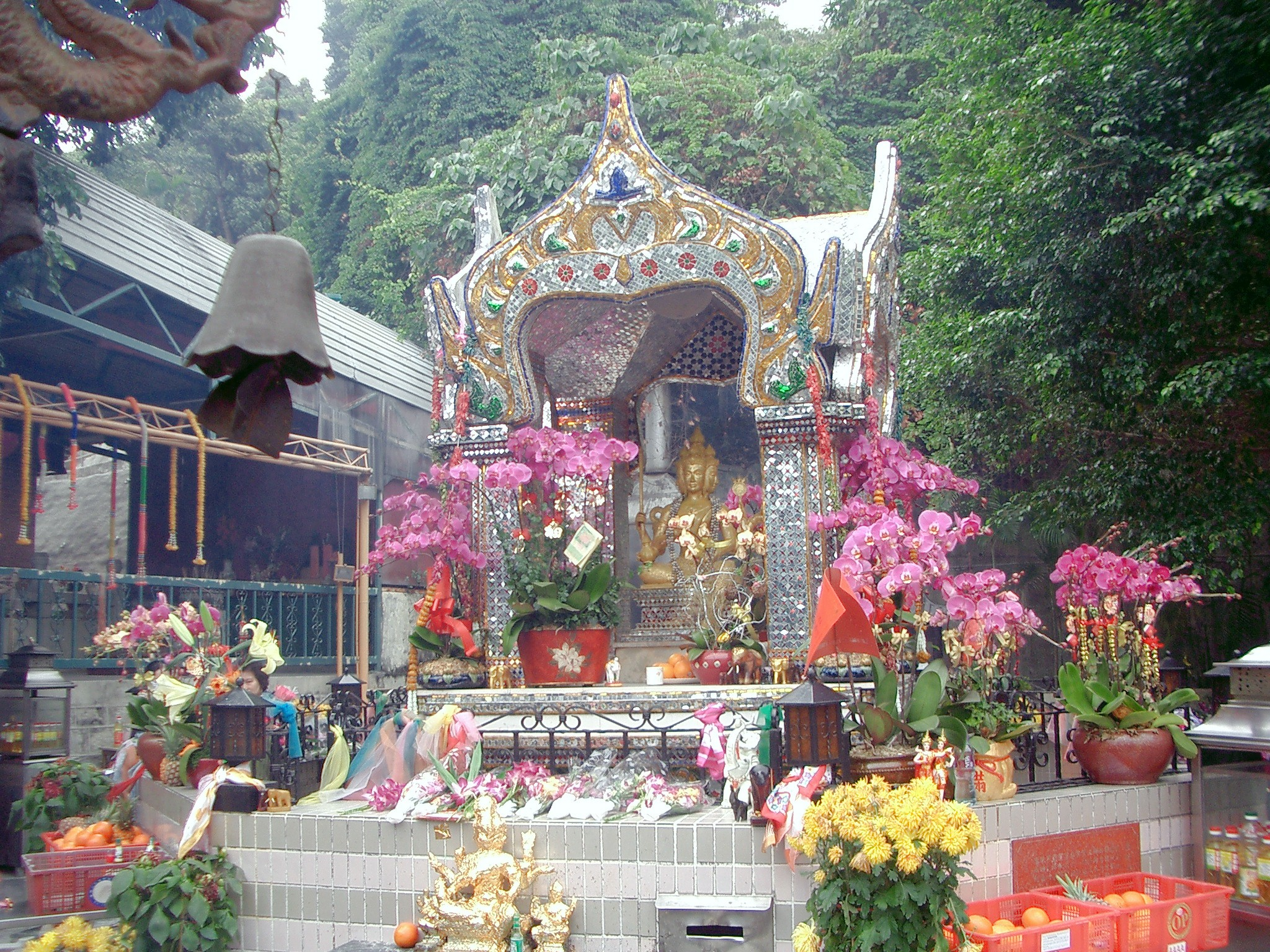 Phra Phrom Status of Koon Ngam Ching Yuen, Sha Tin, New Territories, Hong Kong 中文（香港）: 香港，新界，沙田，大圍，古巖淨苑，四面佛雕像。